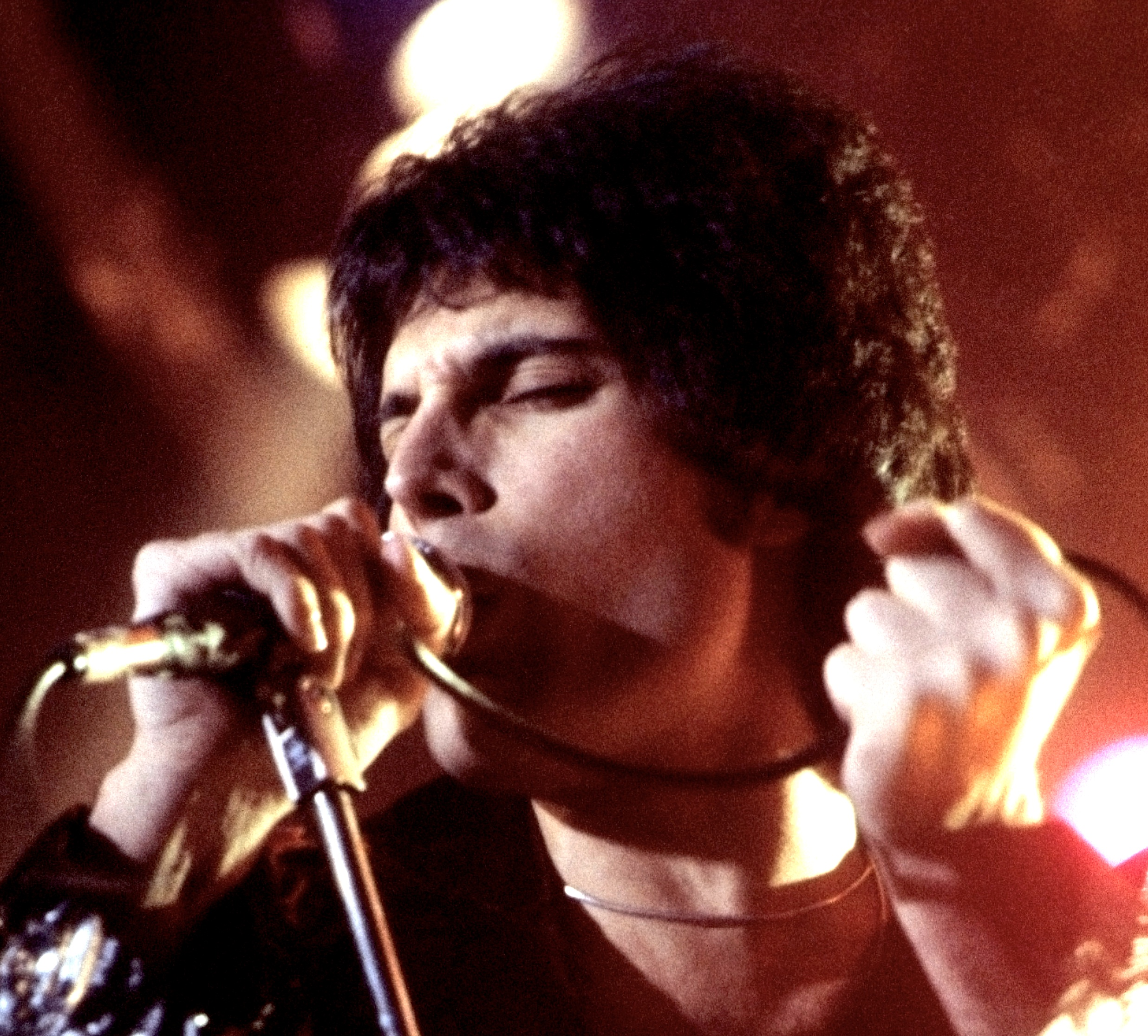 Freddie Mercury in New Haven, CT at a WPLR Show.